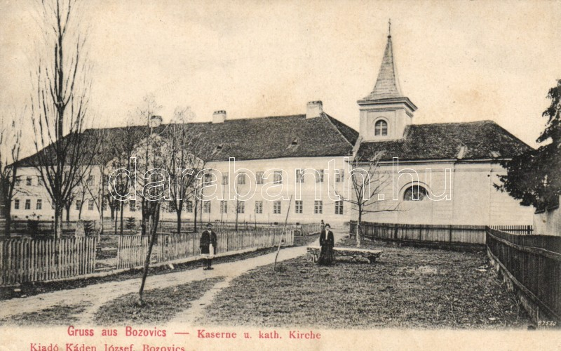 military barracks and Roman Catholic church in Bozovici (postcard from around 1910)